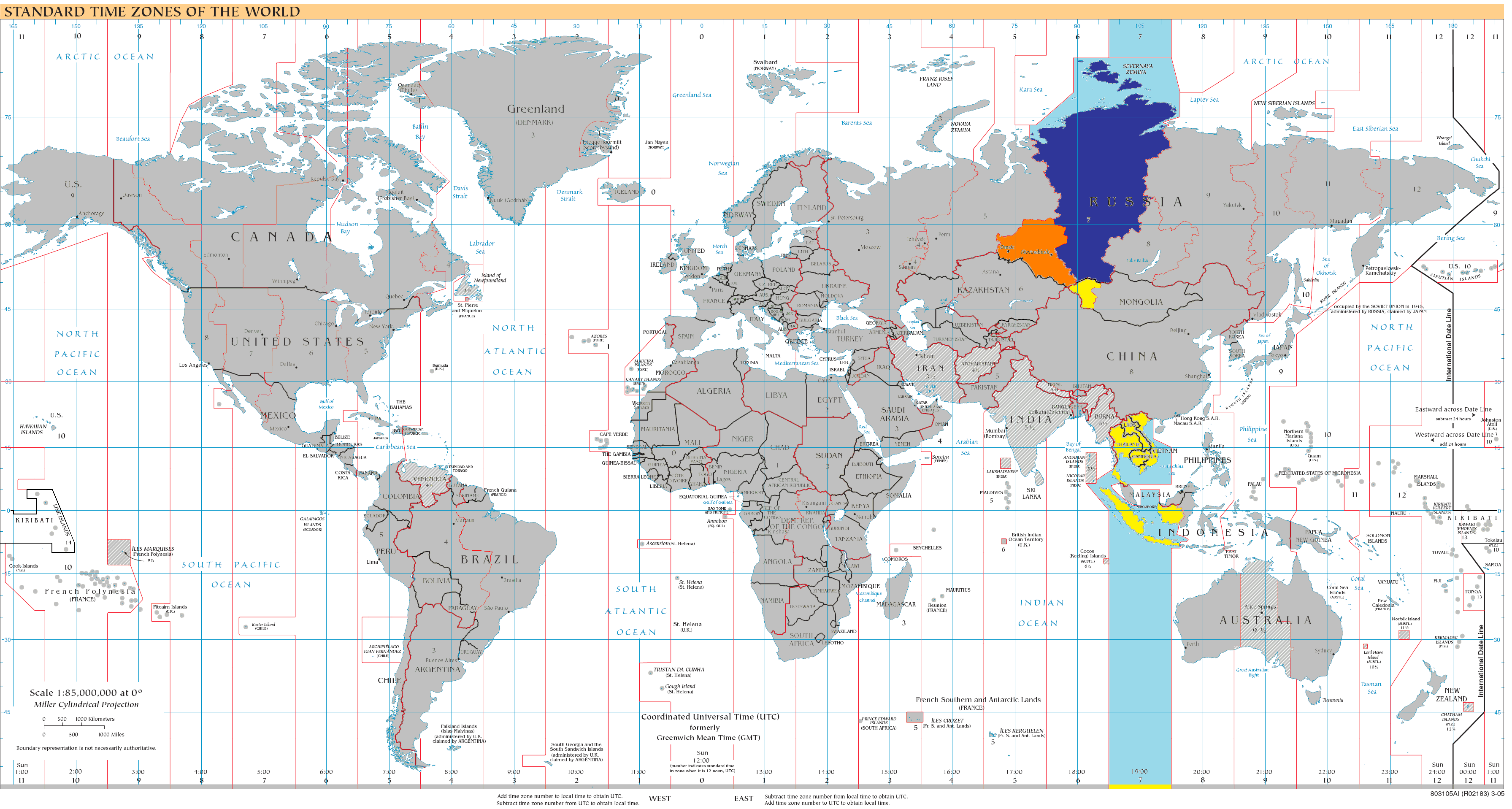 World map of time zones as of 2008, on the Miller Cylindrical Projection and with highlighted UTC+7 zone.